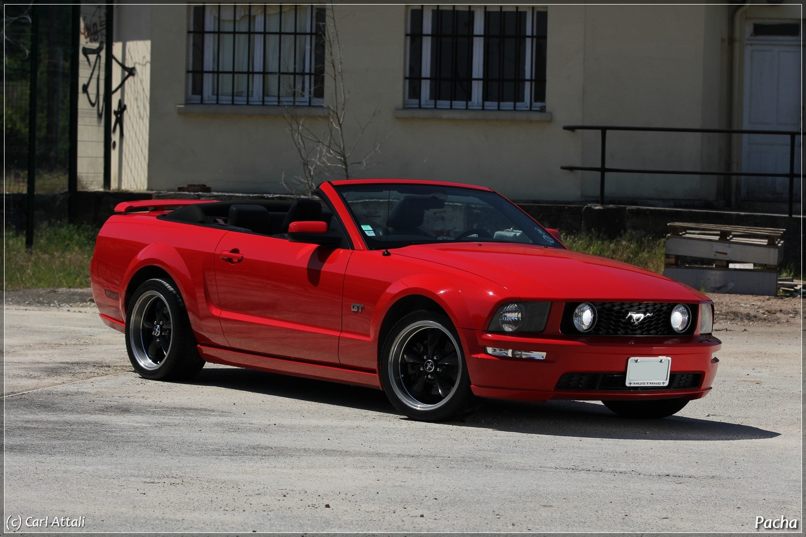 Mustang GT 2005 GT Premium Convertible